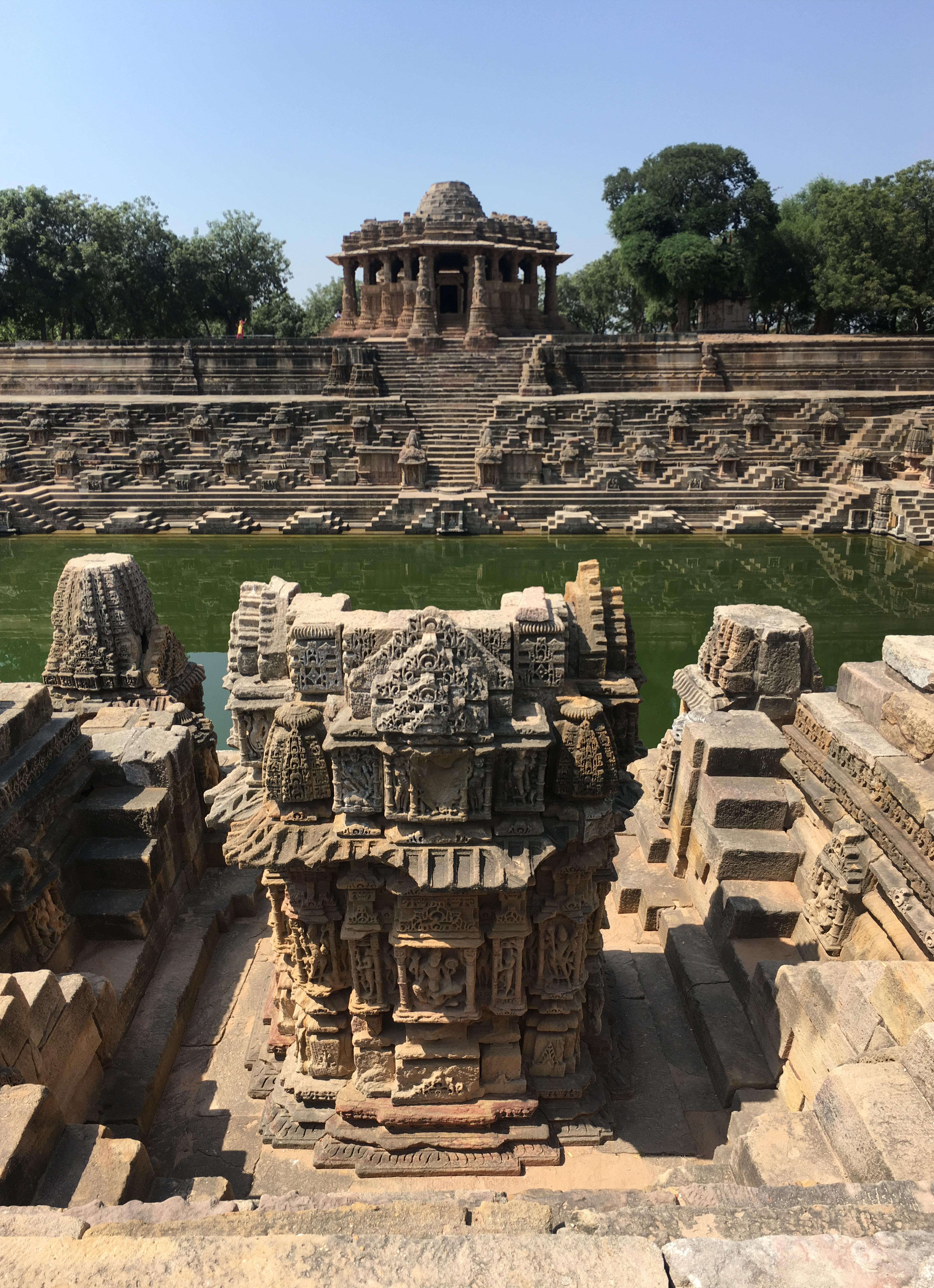 Sun Temple, Modhera, Gujarat